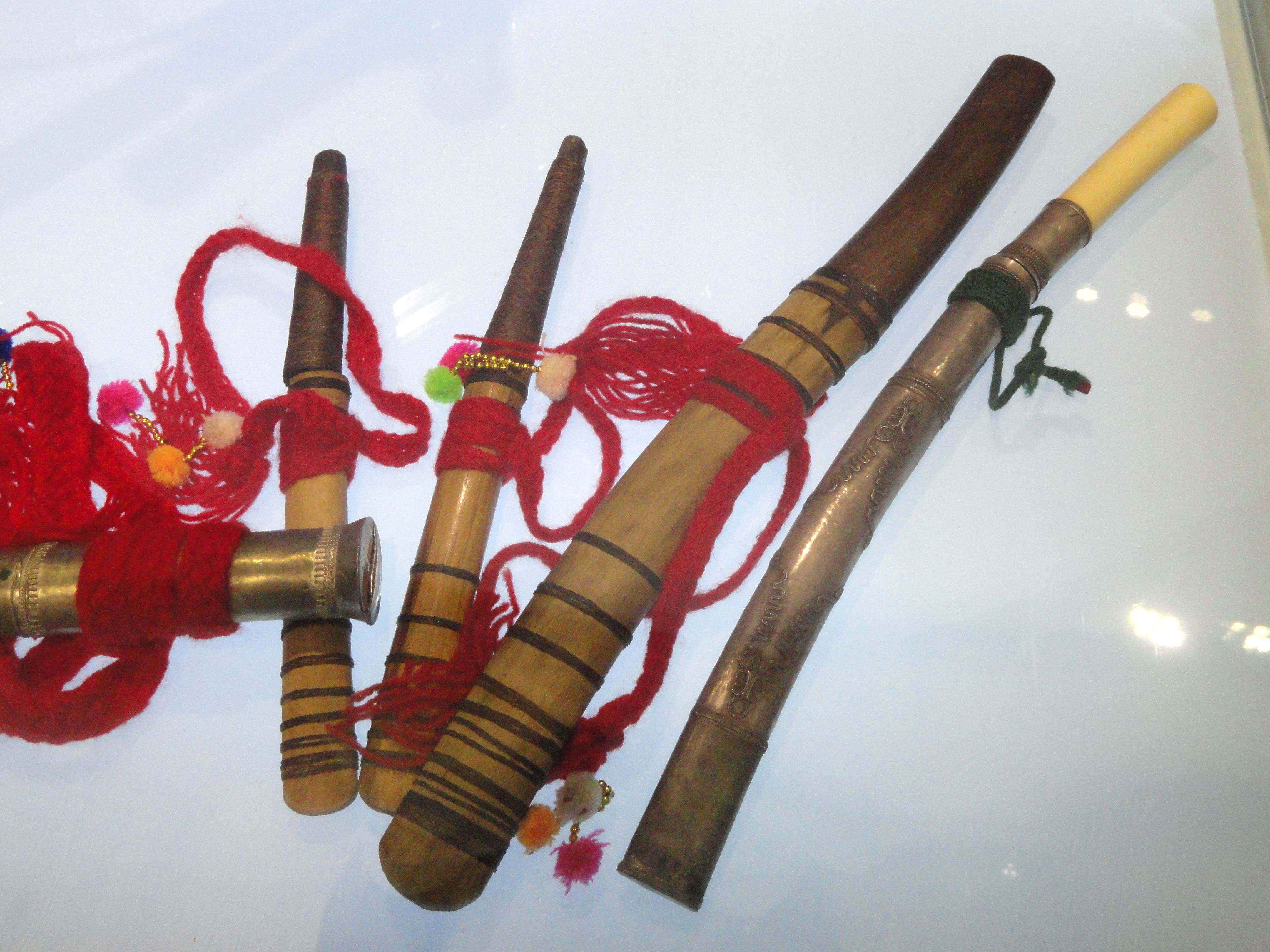 Jingpo swords. Exhibit in the Yunnan Provincial Museum, Kunming, Yunnan, China.